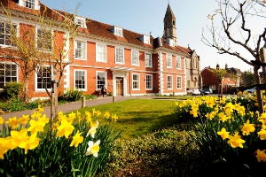 Sarum College